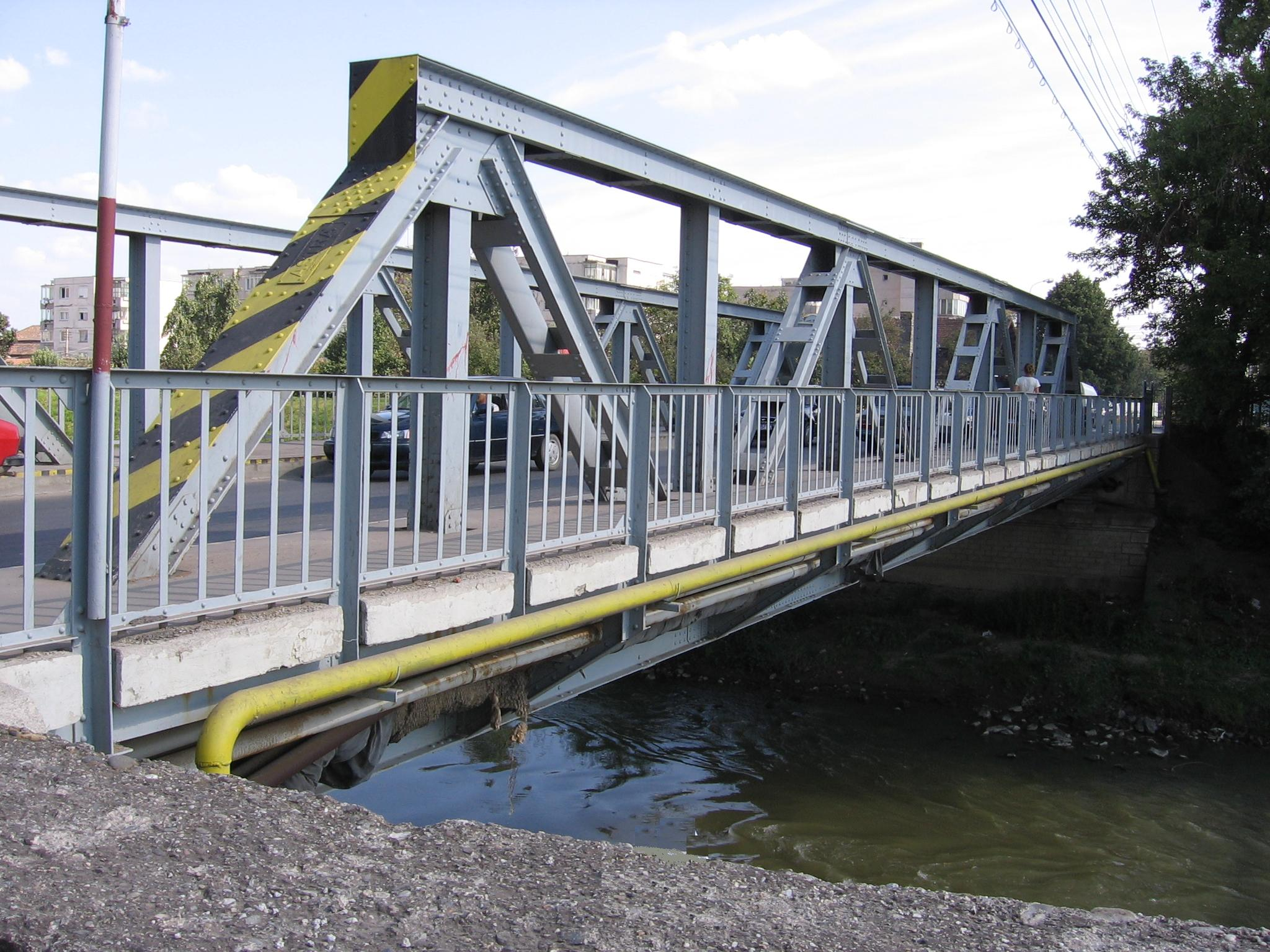 Bridge over Tarnava Mica river Romania, Tarnaveni